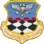 544th Aerospace Reconnaissance Technical Wing. A copy of this emblem was down loaded from for use in my book “STRATEGIC AIR COMMAND An Organizational History” with the permission and approval of Marvin T. Broyhill, Webmaster.